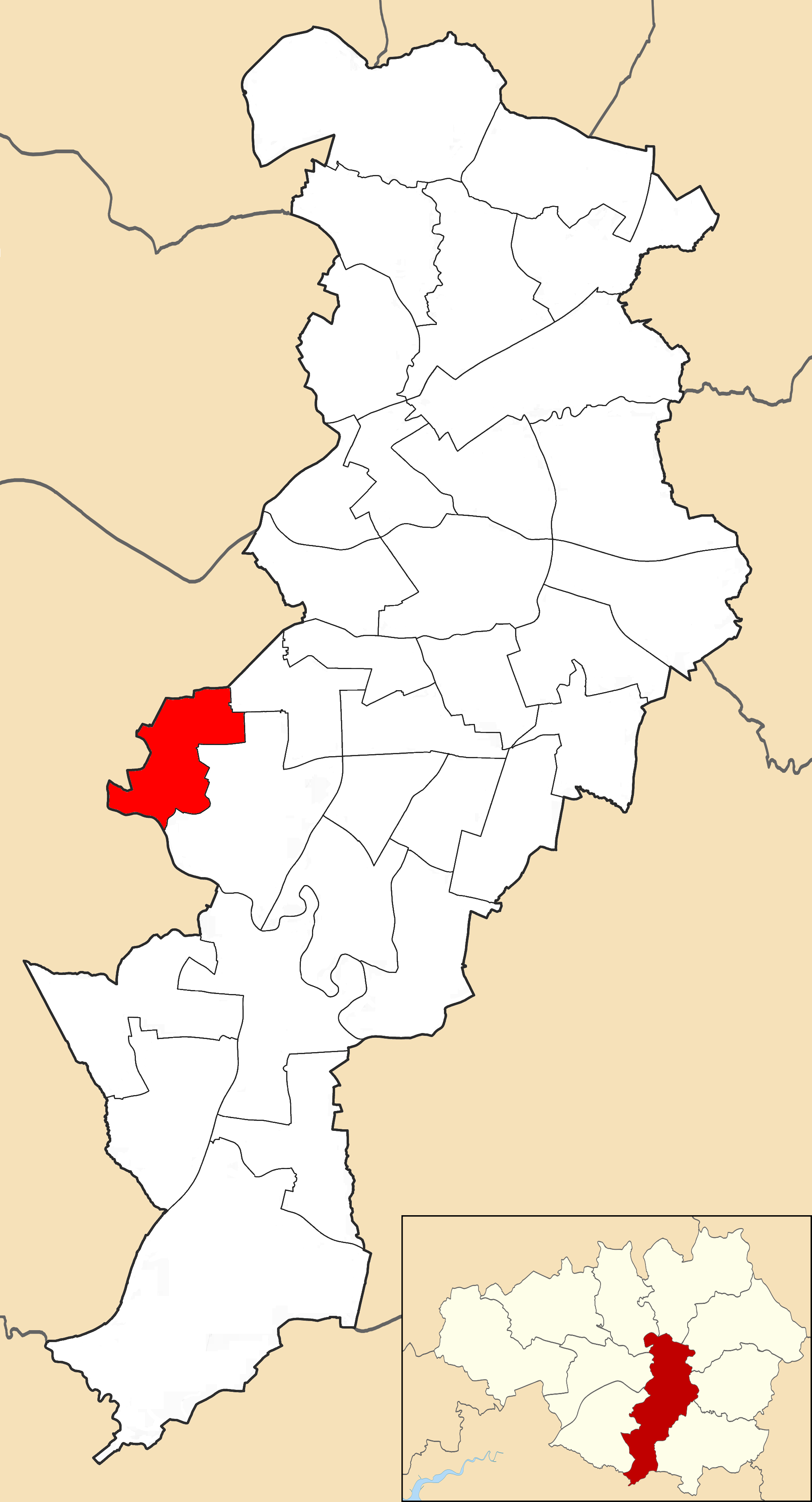 Map showing location of Chorlton ward within Manchester City Council.